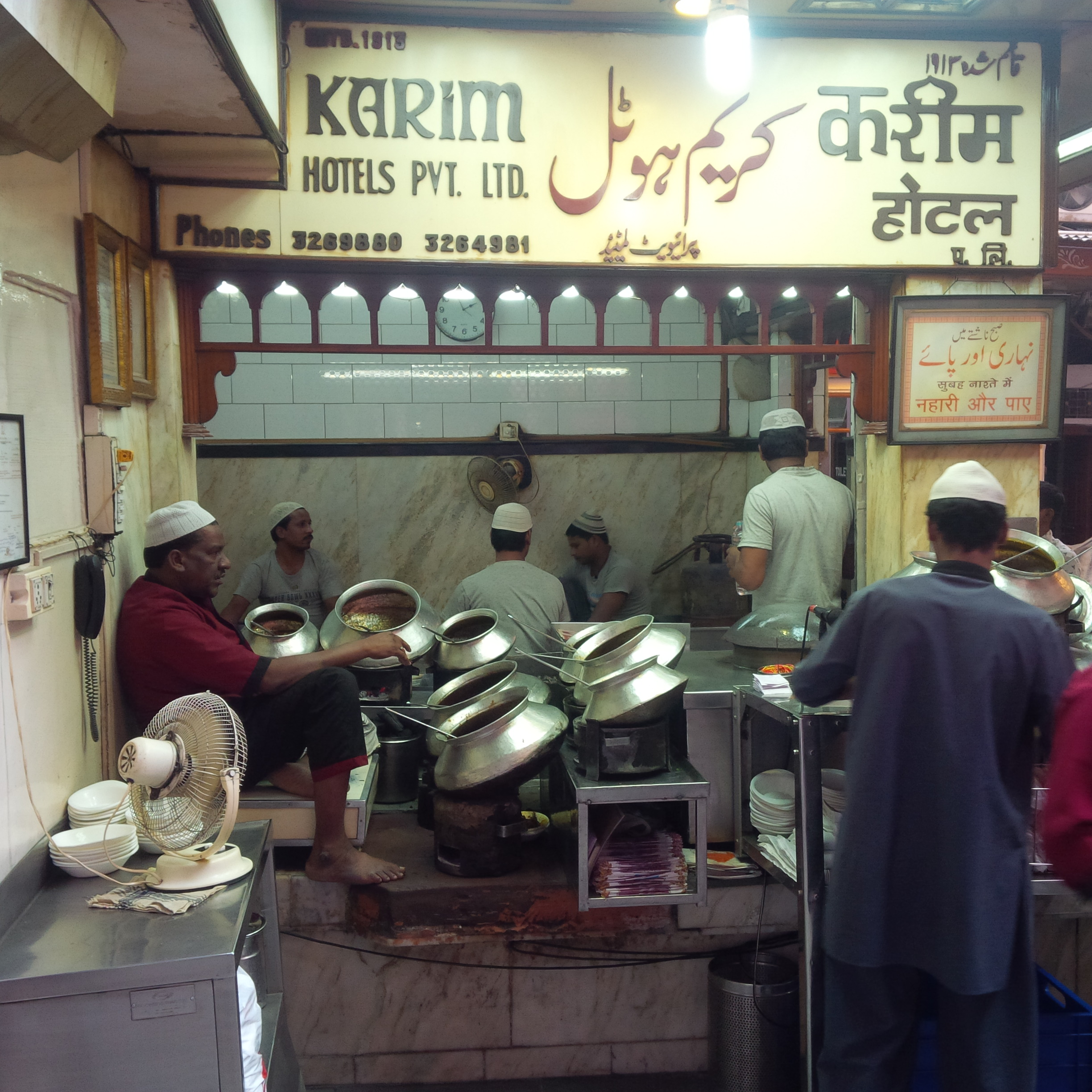 Karim's Hotel in Old Delhi.